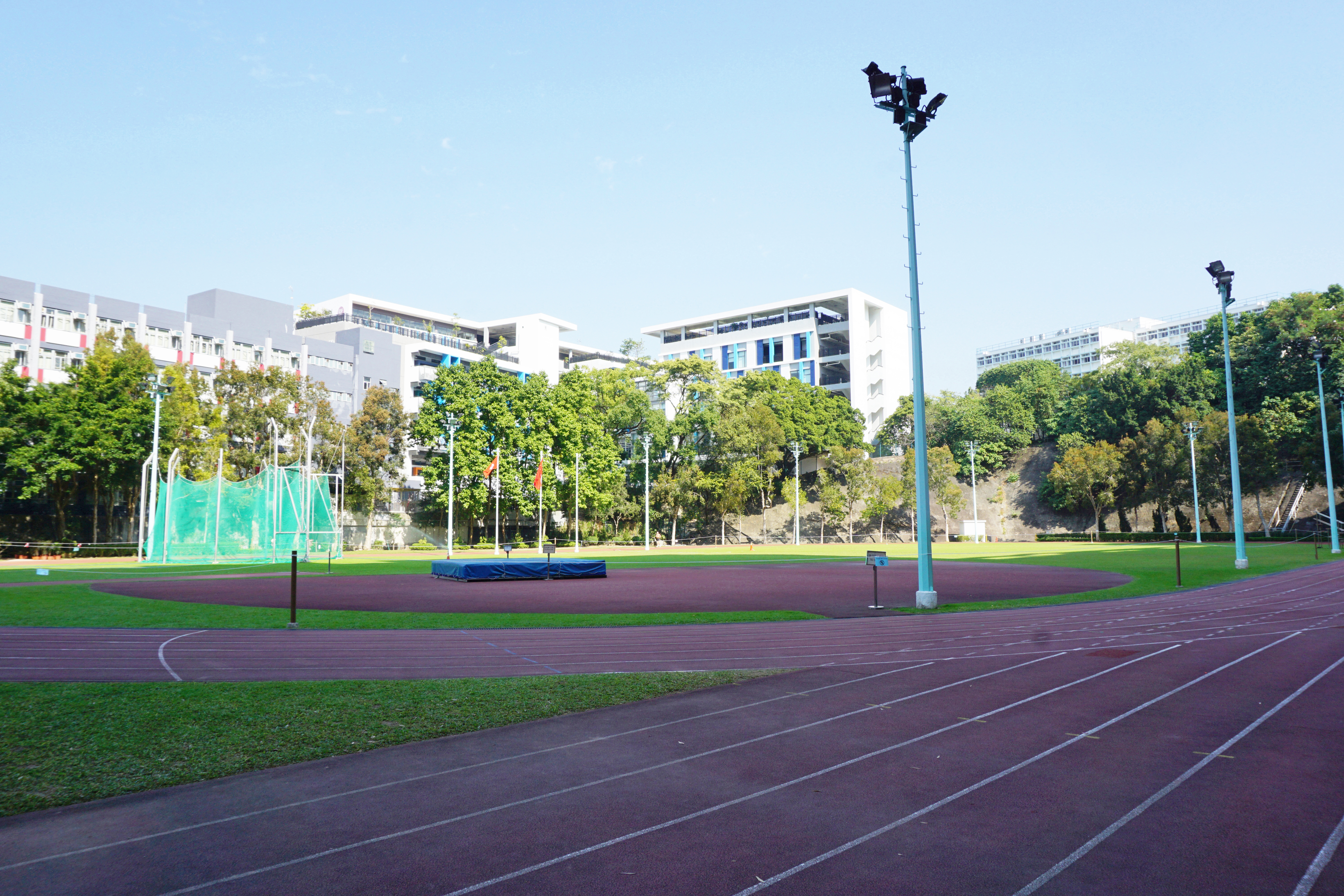 Perth Street Sports Ground in Ho Man Tin, Hong Kong.